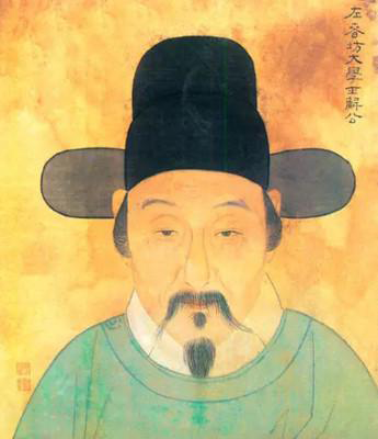 Xie Jin, politician of the early Ming Dynasty.